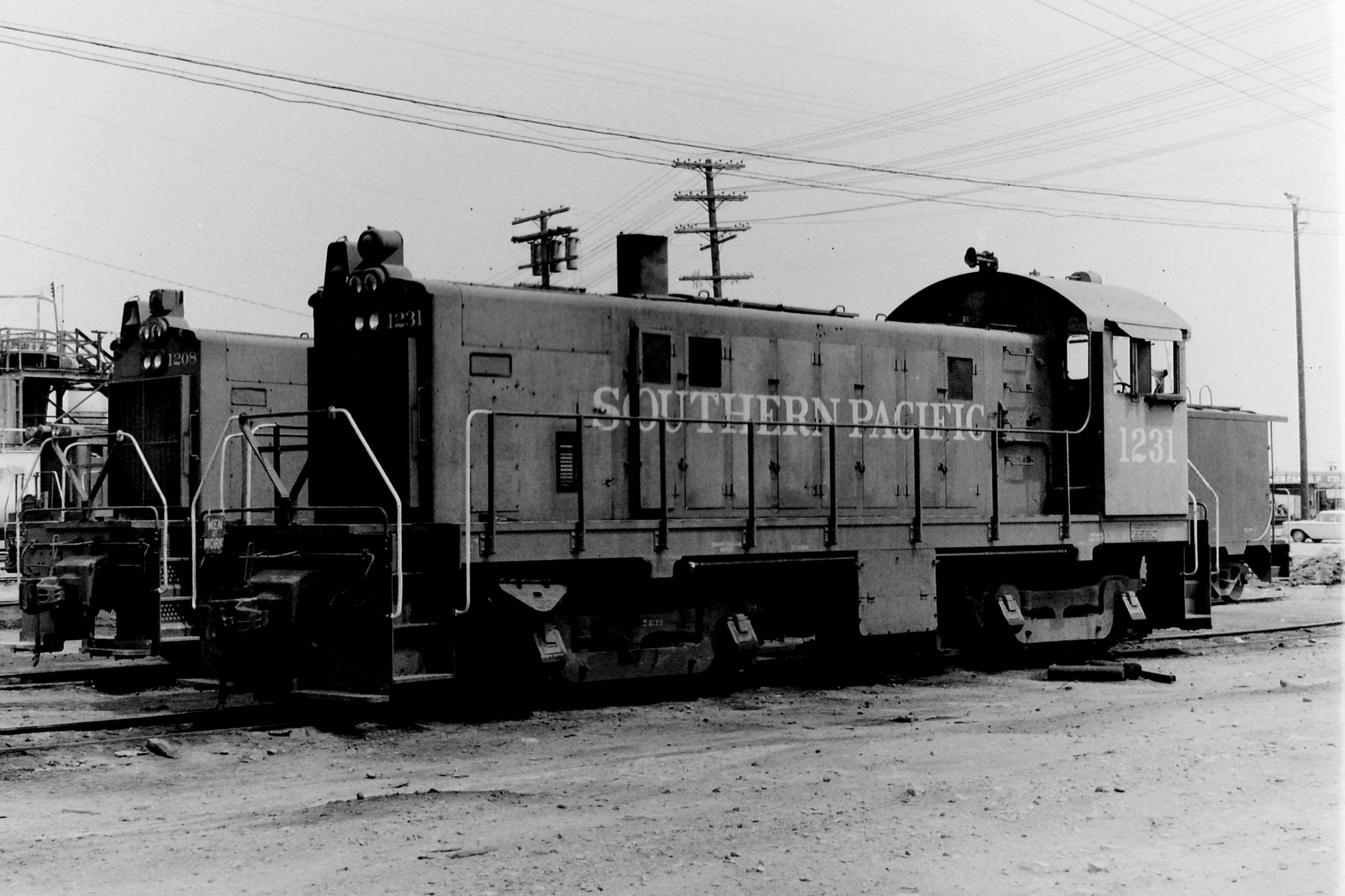 Southern Pacific ALCO S-6 Bo-Bo switcher (with 244 engine) No.1231 at El Centro, 8/70.